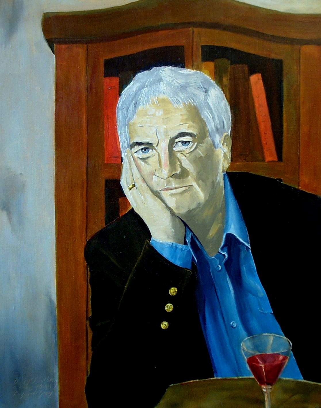 Painting on Canvas